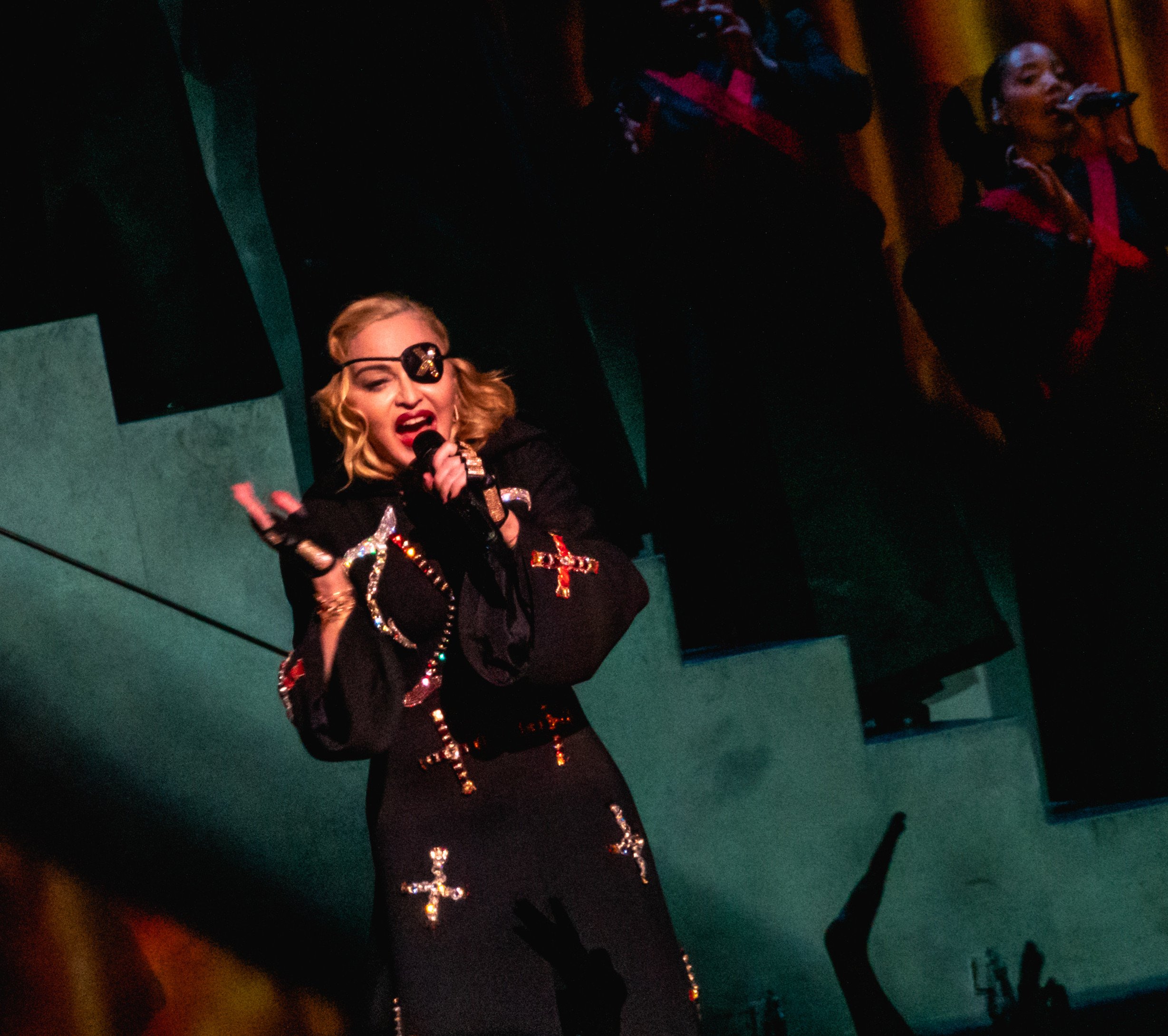 Madonna - London Palladium - Sunday 16th February 2020